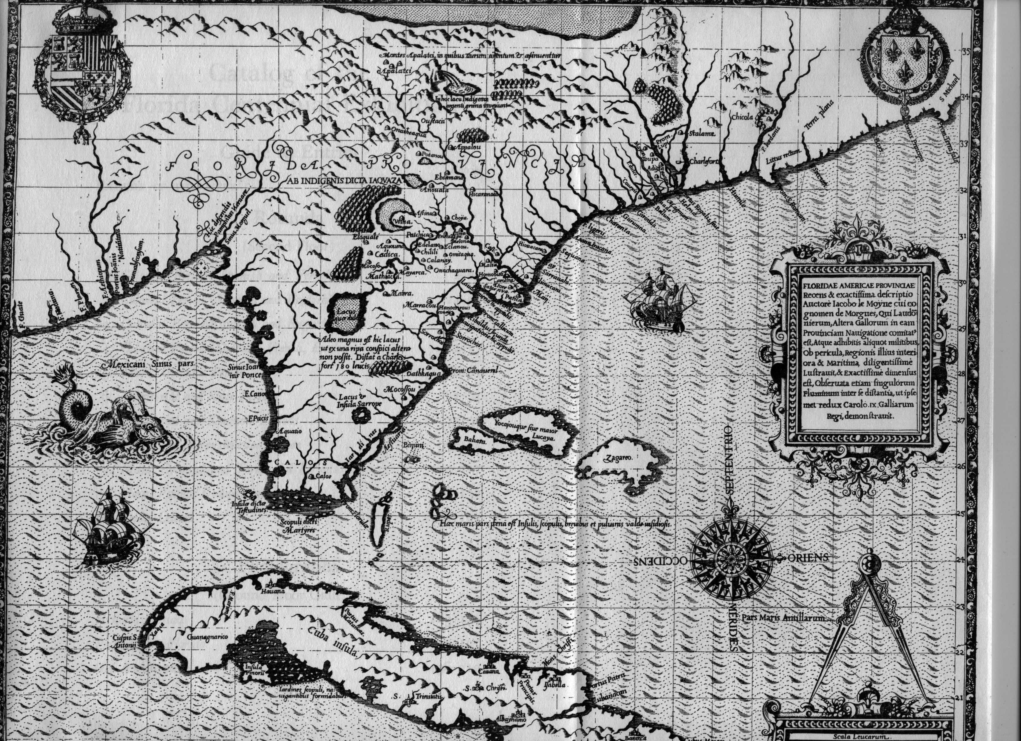 "MAP OF FLORIDA. Engraved map by Jacques le Moyne de Morgues, published by Theodor de Bry in Brevis Narratio . . . Frankfort, 1591"